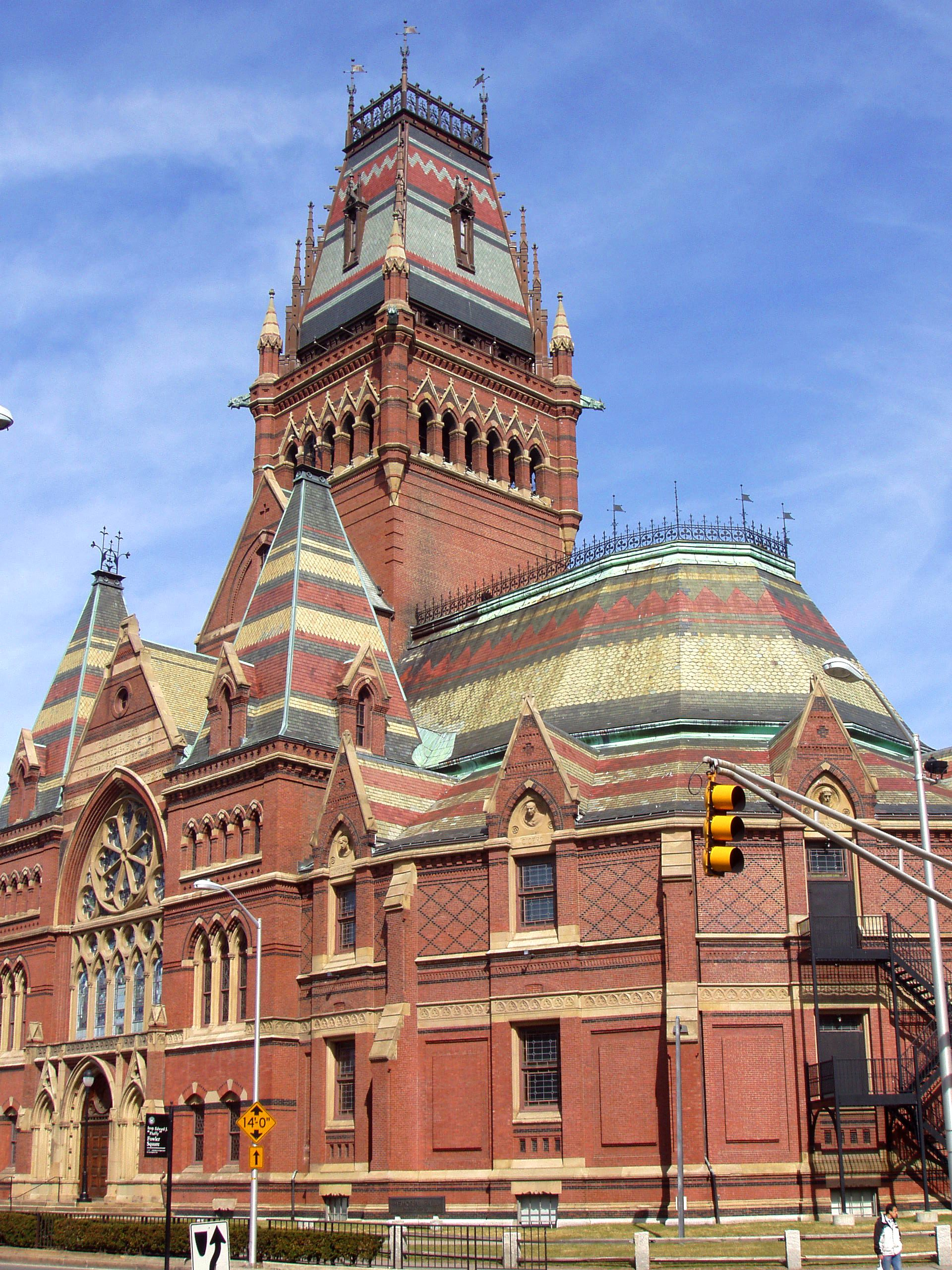 Memorial Hall, Harvard University, Cambridge, Massachusetts, USA. General view of the exterior. Architects Henry Van Brunt and William Robert Ware.